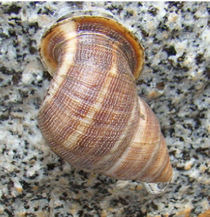 Photo of Scutalus mariopenai. Specimen aestivating on rock.